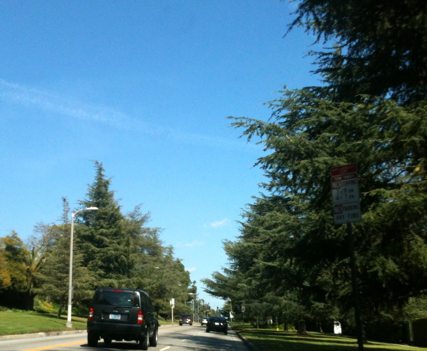 Heading east on Los Feliz Blvd. in Los Angeles, CA